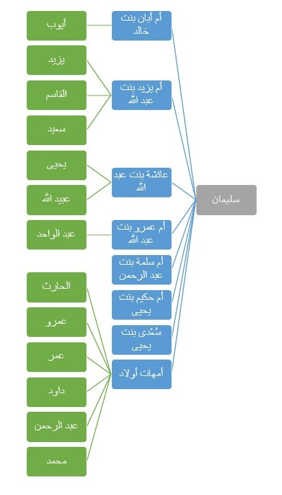 House of Sulayman ibn Abd al-Malik, his wifes and children. I create it with PowerPoint.